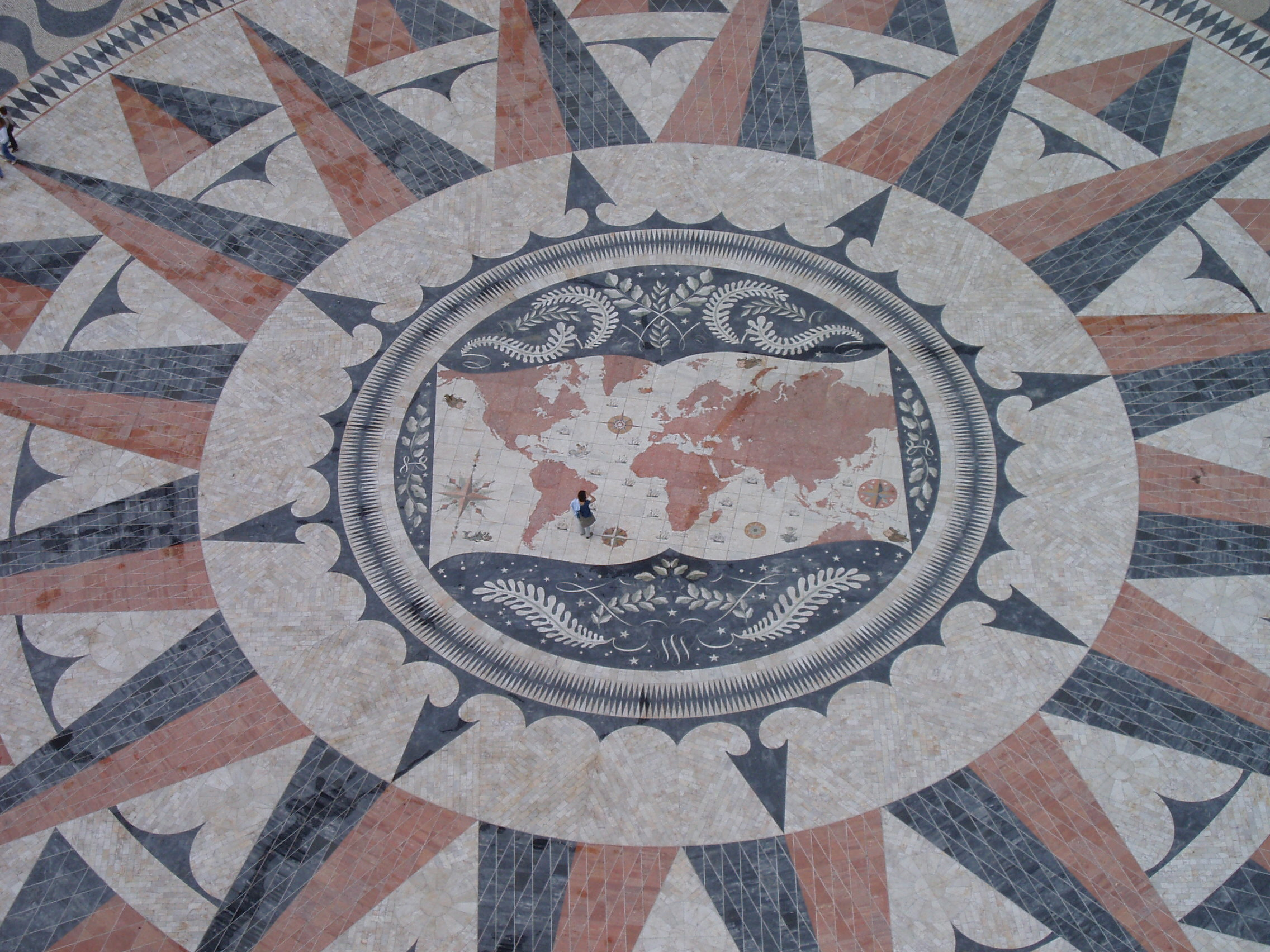 Pavement wind rose from top of the Monument to the Discoveries (close-up). Photographed in Lisbon, Portugal.